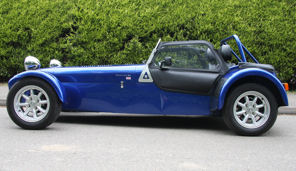 It is a year since I took delivery of my 7 kit. Although I didn't get it on the road until September I insured it from when I started building it. So my insurance is up for renewal and I have changed insurers. The new company wanted photos of my 7 to consider my valuation. Any excuse to photo it and post to Flickr...